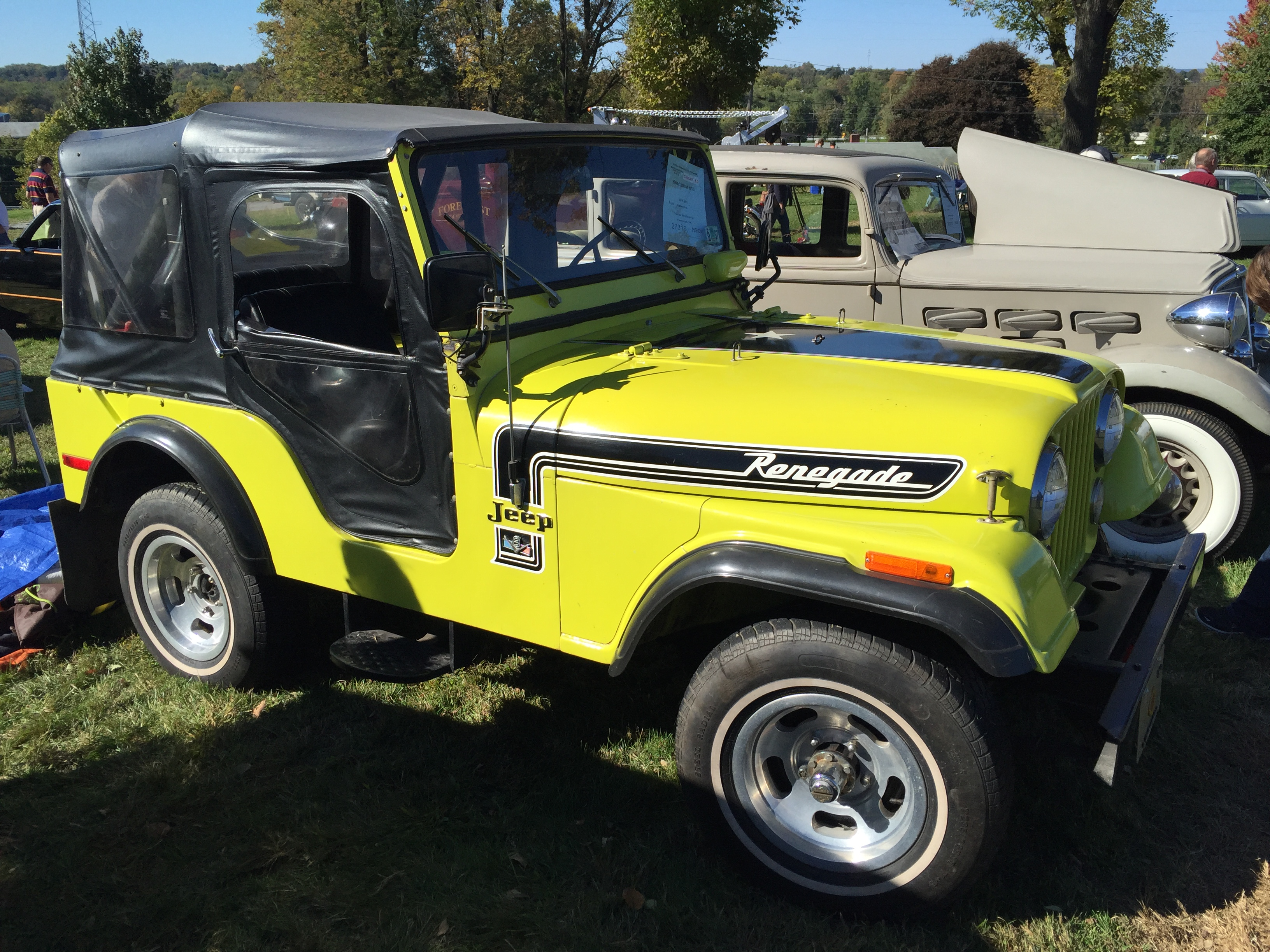 1974 Jeep CJ-5 Renegade V8, built by American Motors Corporation (AMC). This is a special model, a high-performance SUV (that therm was not known at the time) is almost in all original condition. This classic Jeep has not been modified, customized, or butchered in any way. Finished in its original "Renegade Yellow" (paint code 510) that was part of the 1974 Renegade models with black accent striping and featuring AMC's 304 cu in (5.0 L) V8 engine, alloy wheels, and a Trac-Lok limited-slip differential, that were all installed at the factory when this Jeep was built during February 1974. Picture taken at the 2015 Antique Automobile Club of America (AACA) Eastern Regional Fall Show held in Hershey, Pennsylvania. This car is in the HPOF (Historical Preservation Original Features) class.